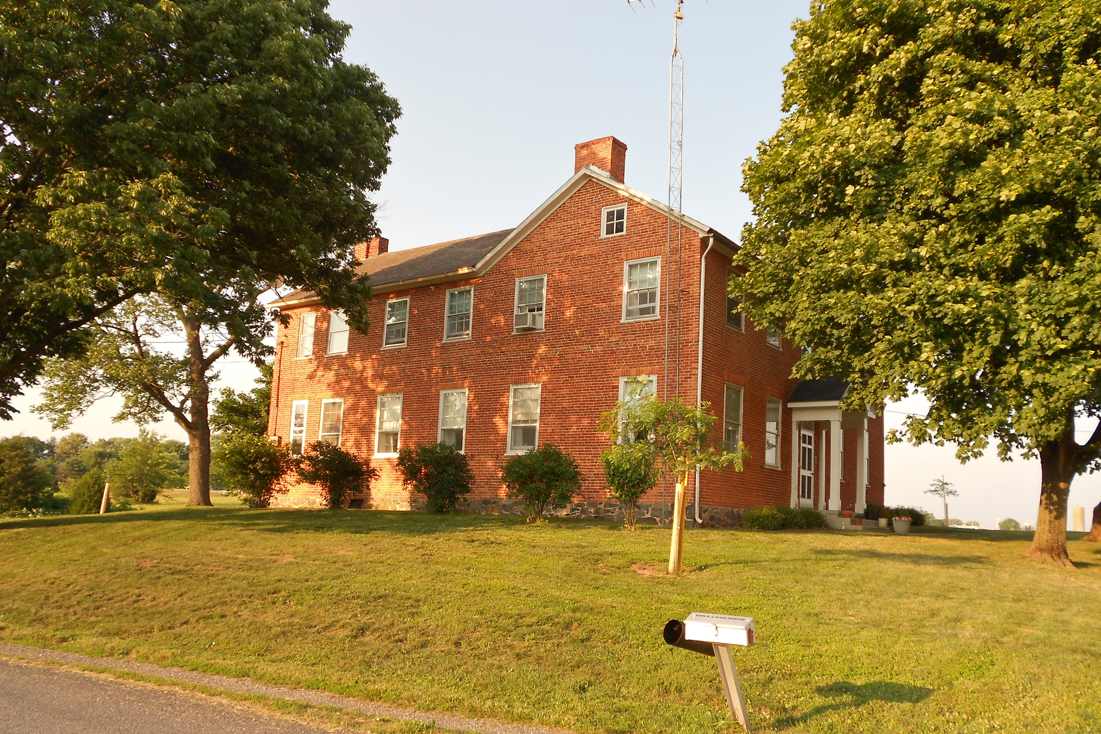 Horner Farm and Barn at 20 Horner Rd. (corner of Mason-Dixon Road), Cumberland Township, Adams County, Pennsylvania Area: 1.5 acres (0.61 ha) Built: 1819, 1840 Architectural style: Federal Added to NRHP: May 24, 2007